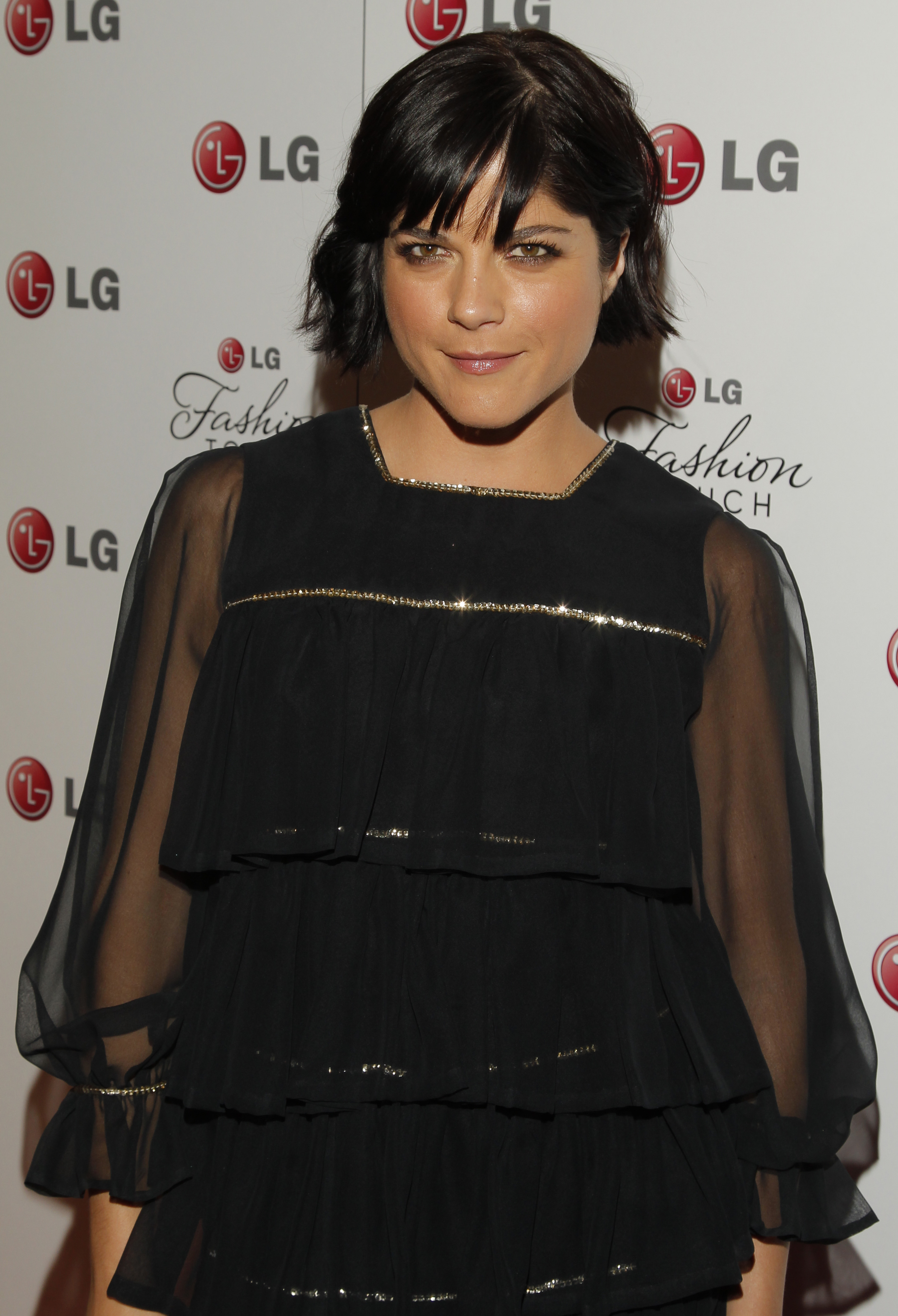 LG Mobile Phone Touch Event. Actress Selma Blair.